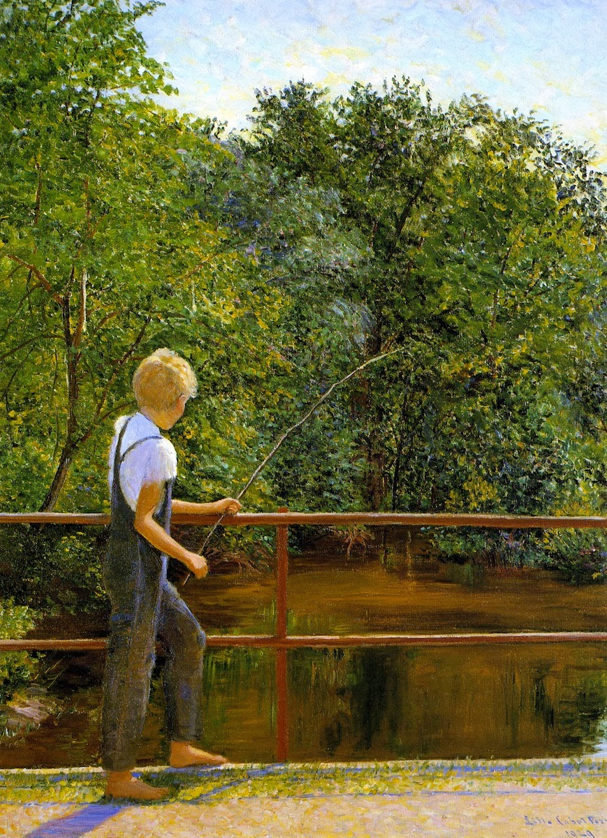 Boy Fishing